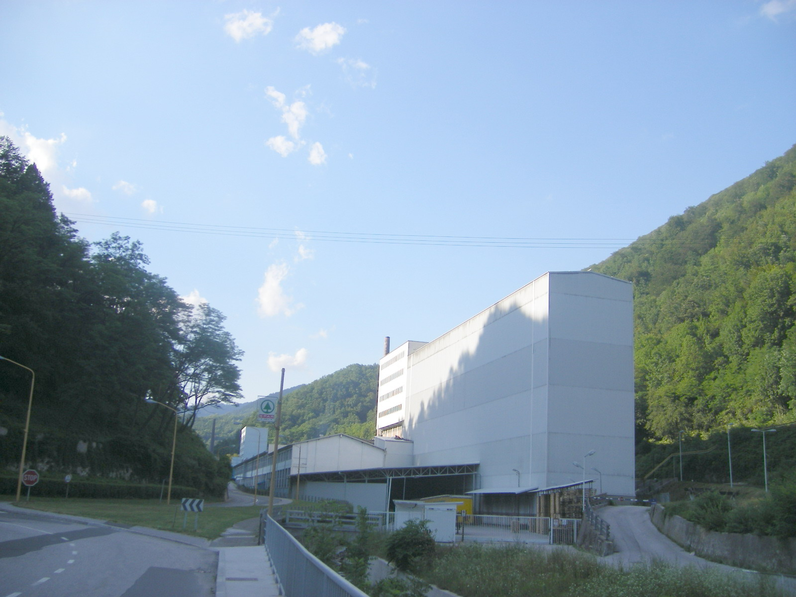 Hrastnik Glass Factory